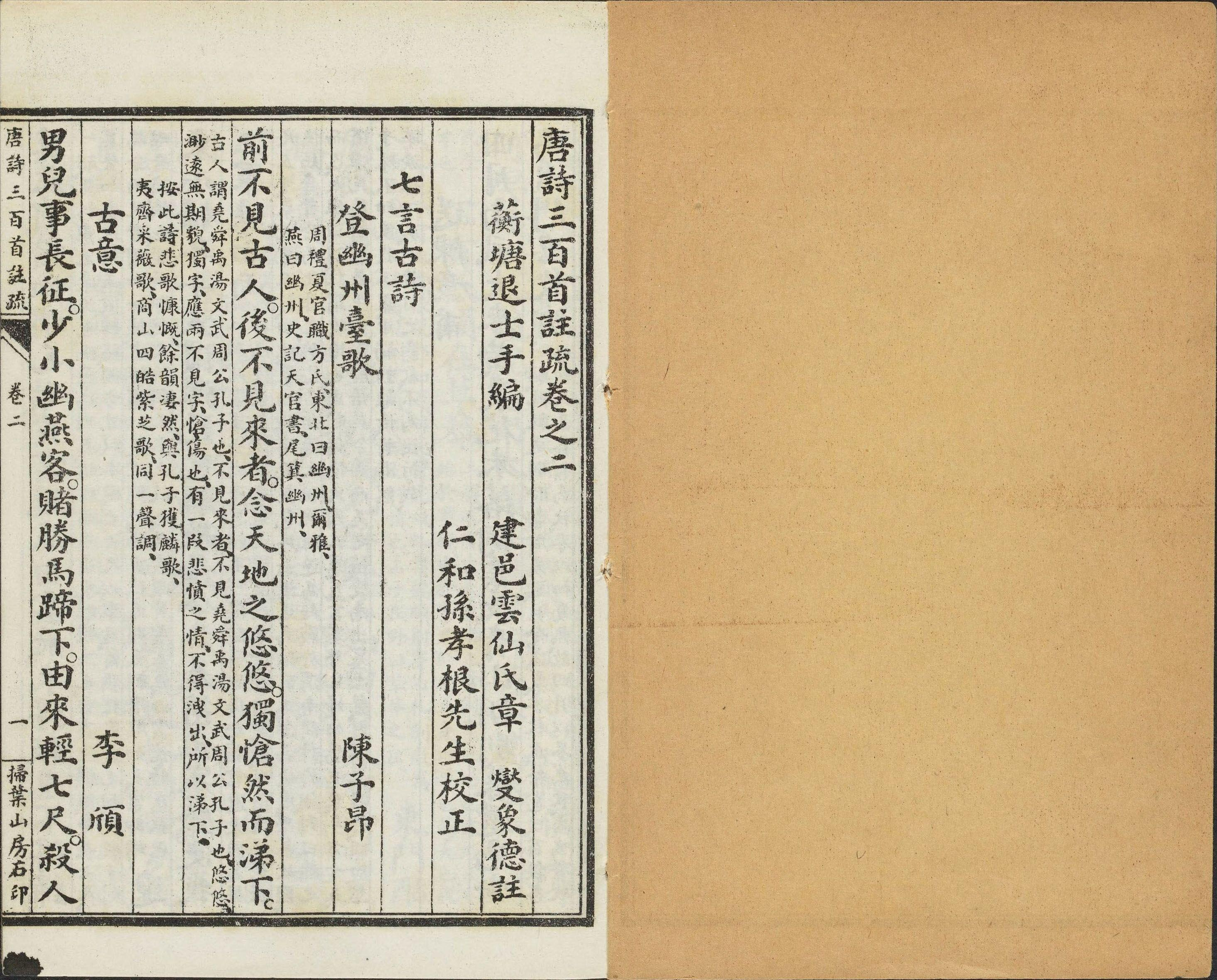 Three Hundred Tang Poems